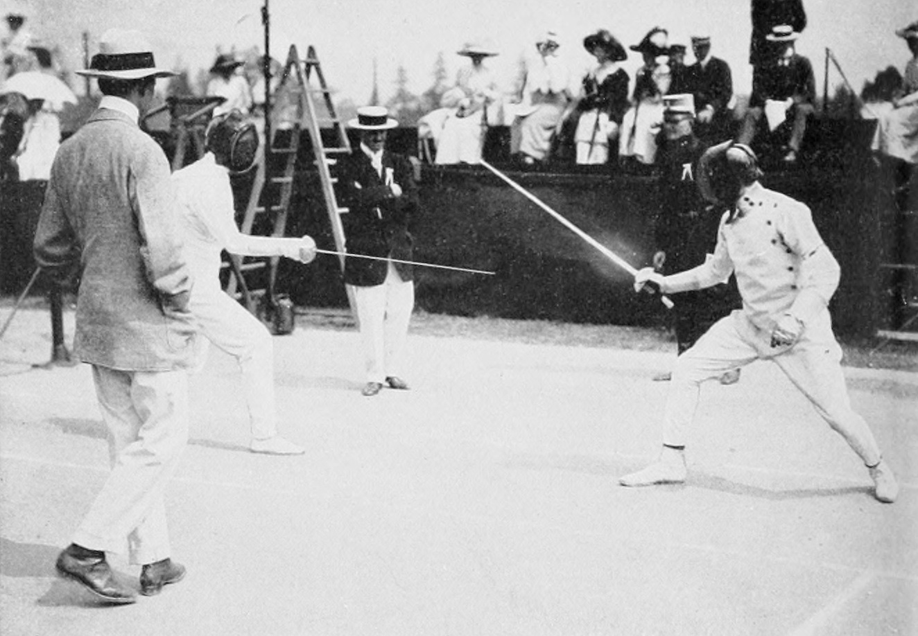 One of the fencing matches of the Modern Pentathlon at the 1912 Summer Olympics in Stockholm. DE MAS LATRIE (France) 2:nd Man—G. PATTON (U. S. A.), 4:th Man.